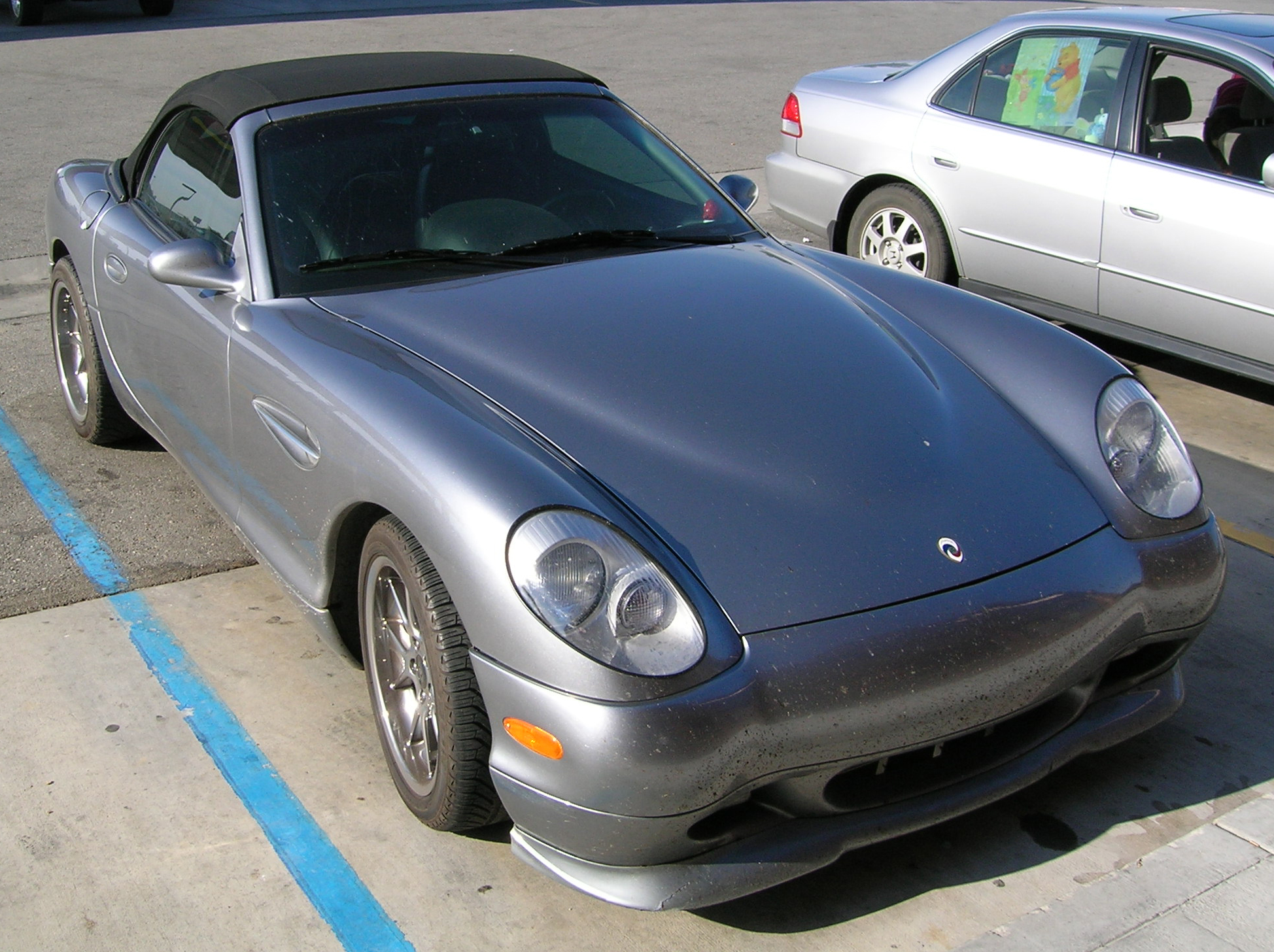 Full length picture of a Panoz Esperante roadster from the front quarter